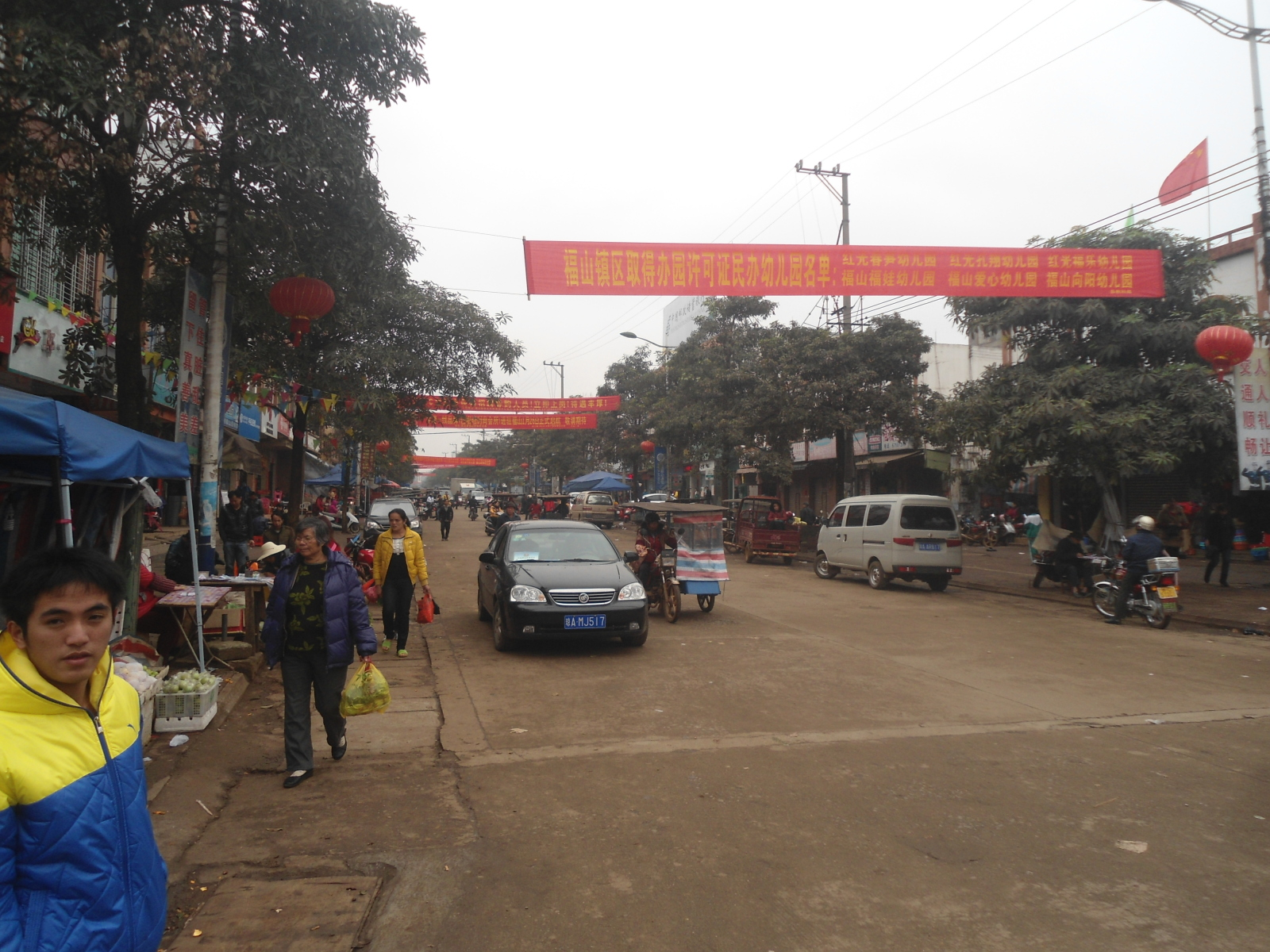 Fushanzhen - downtown in 2014